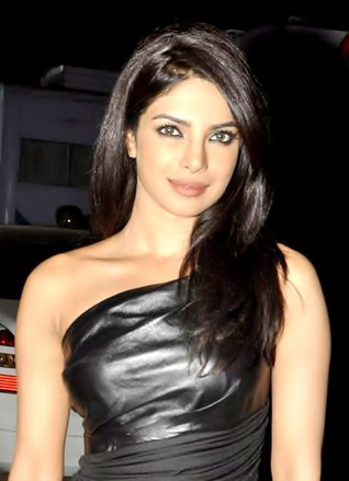 Priyanka Chopra at the Big Star Entertainment Awards in 2011